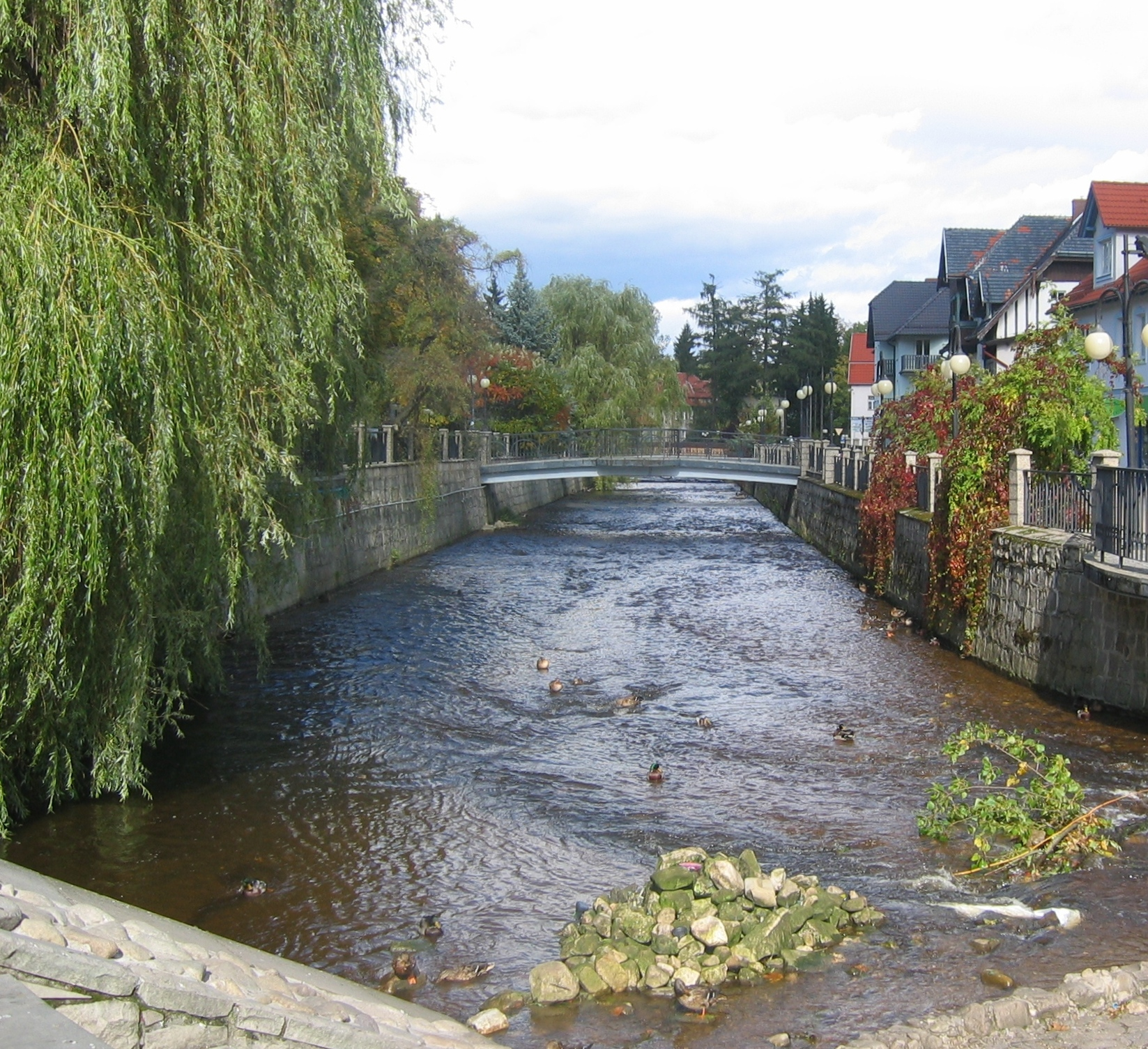 Bystrzyca Dusznicka in Polanica-Zdrój